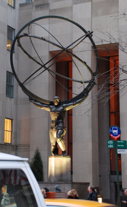 Statue of Atlas, outside the Rockefeller Center, New York